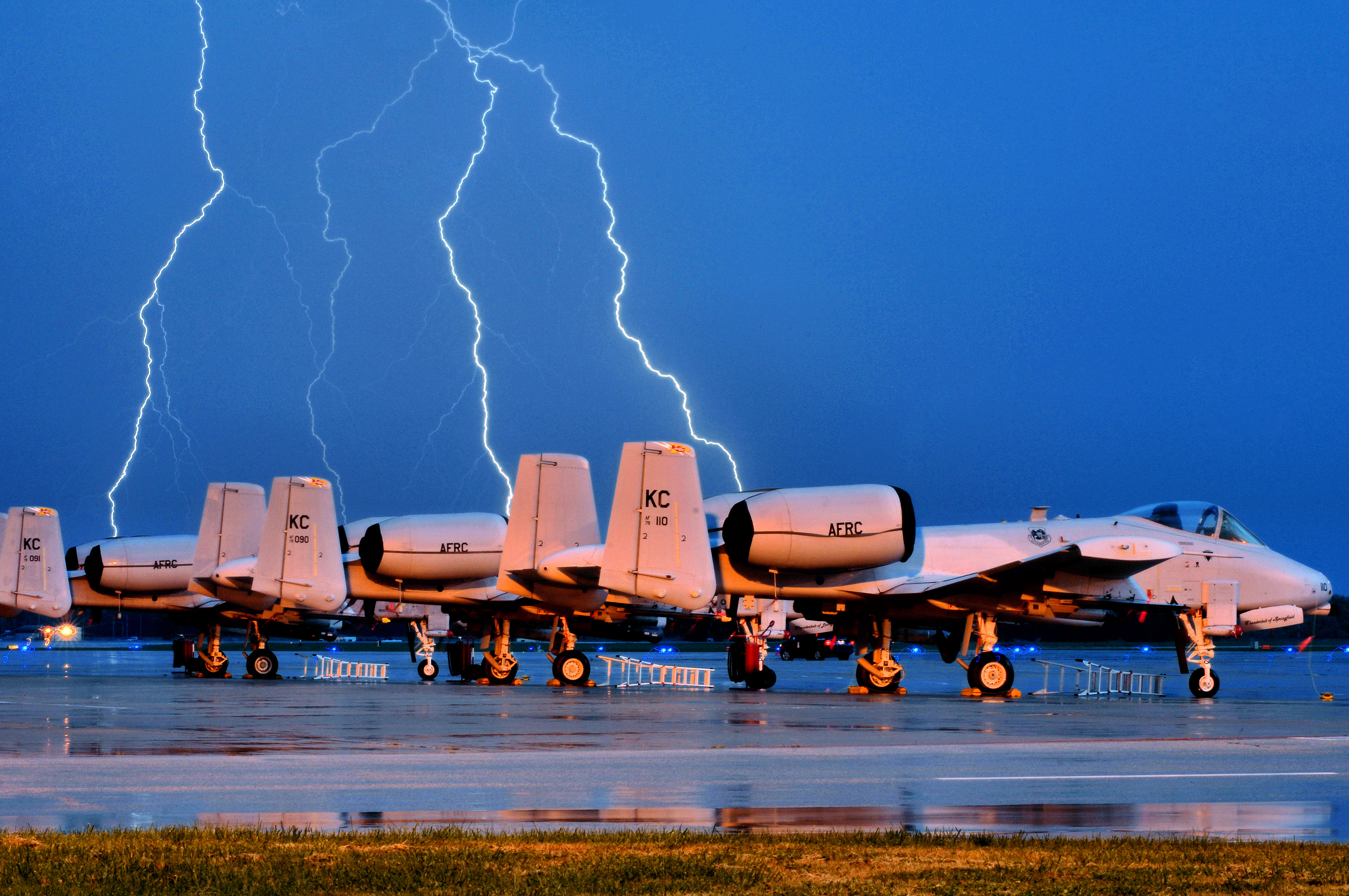 WHITEMAN AIR FORCE BASE, Mo., Lighting strikes over 442nd Fighter Wing A-10 Thunderbolt's II during an early morning thunderstorm, Oct. 20. The 442nd FW maintains a fleet of 27 A-10's. (U.S. Air Force photo/Senior Airman Kenny Holston)(Released)